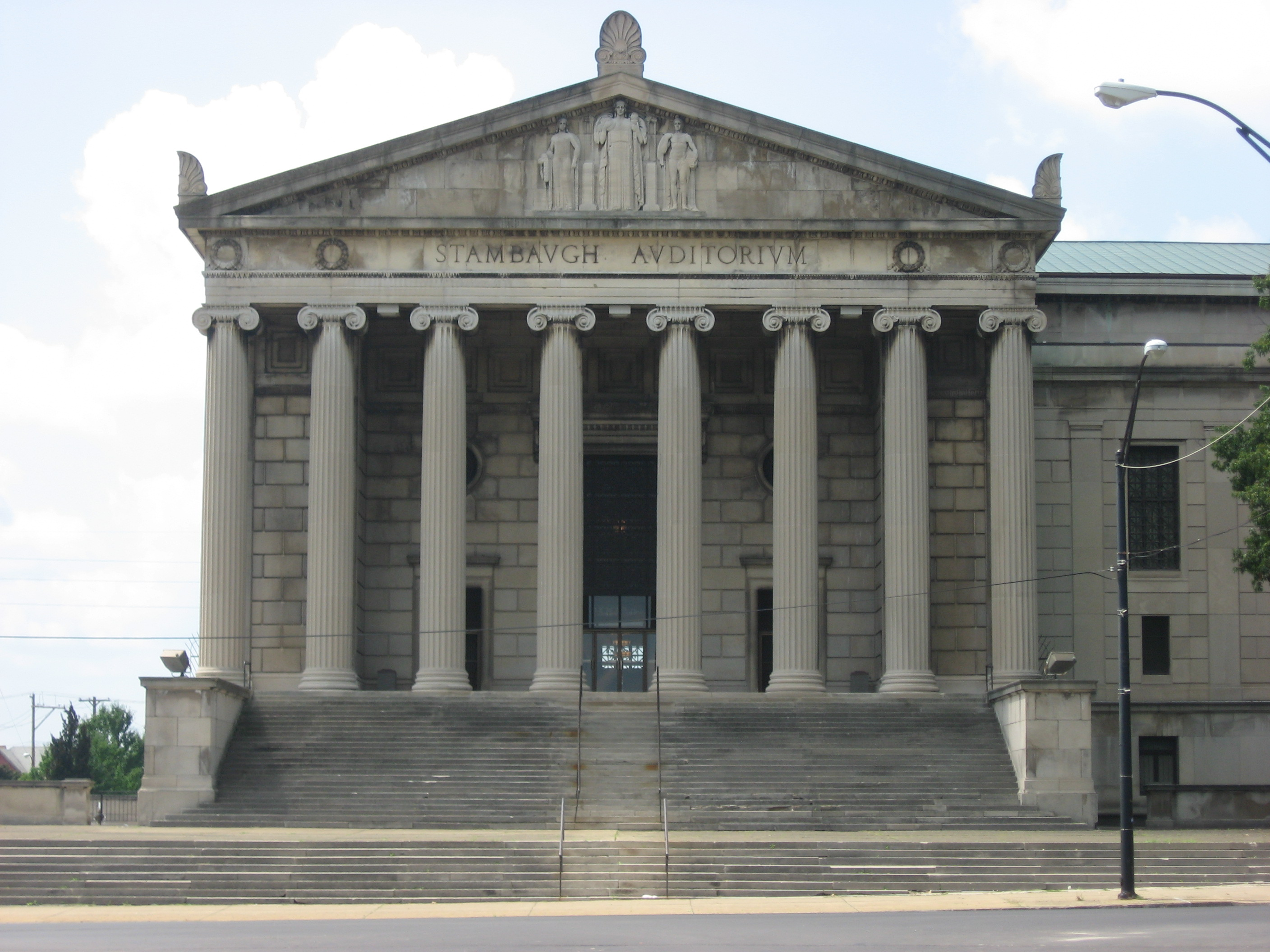 Entrance section of the Stambaugh Auditorium, located at 1000 Fifth Avenue in Youngstown, Ohio, United States. Built in 1926, it is listed on the National Register of Historic Places.